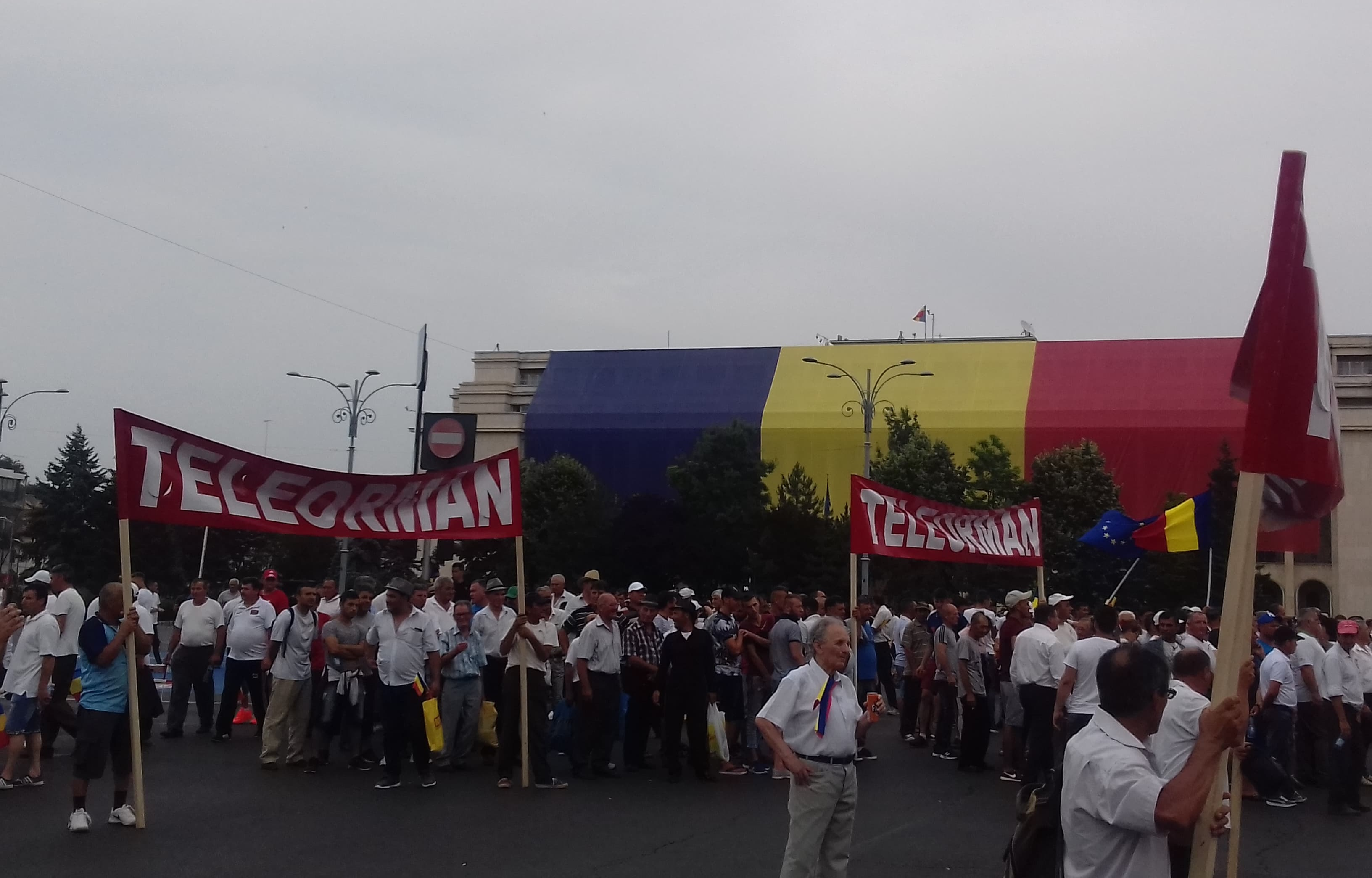 9th of june 2018 PSD rally in Victoria square (Bucharest)